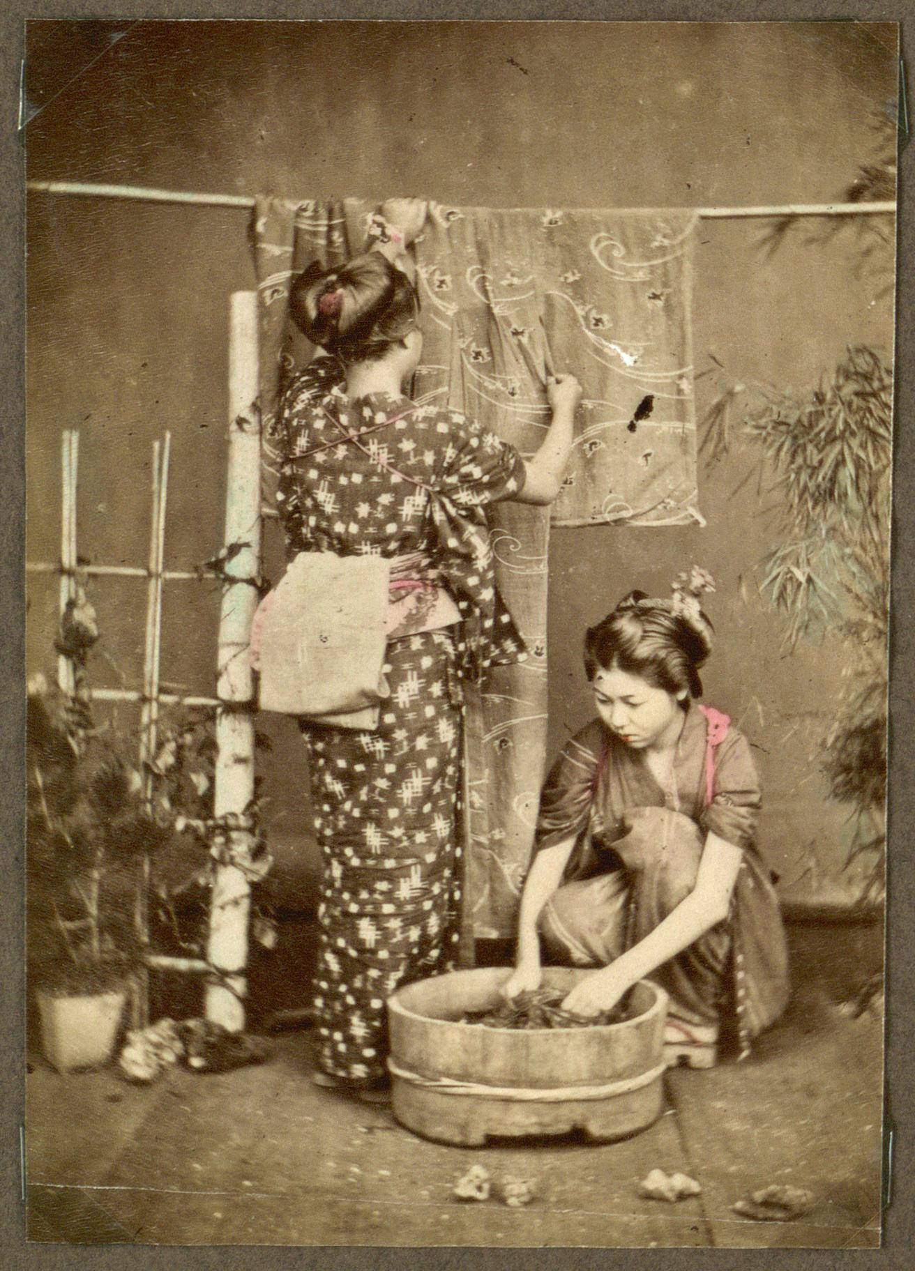 Photographs donated by Doctor J. Johnsson 1925. No. es_b_00631